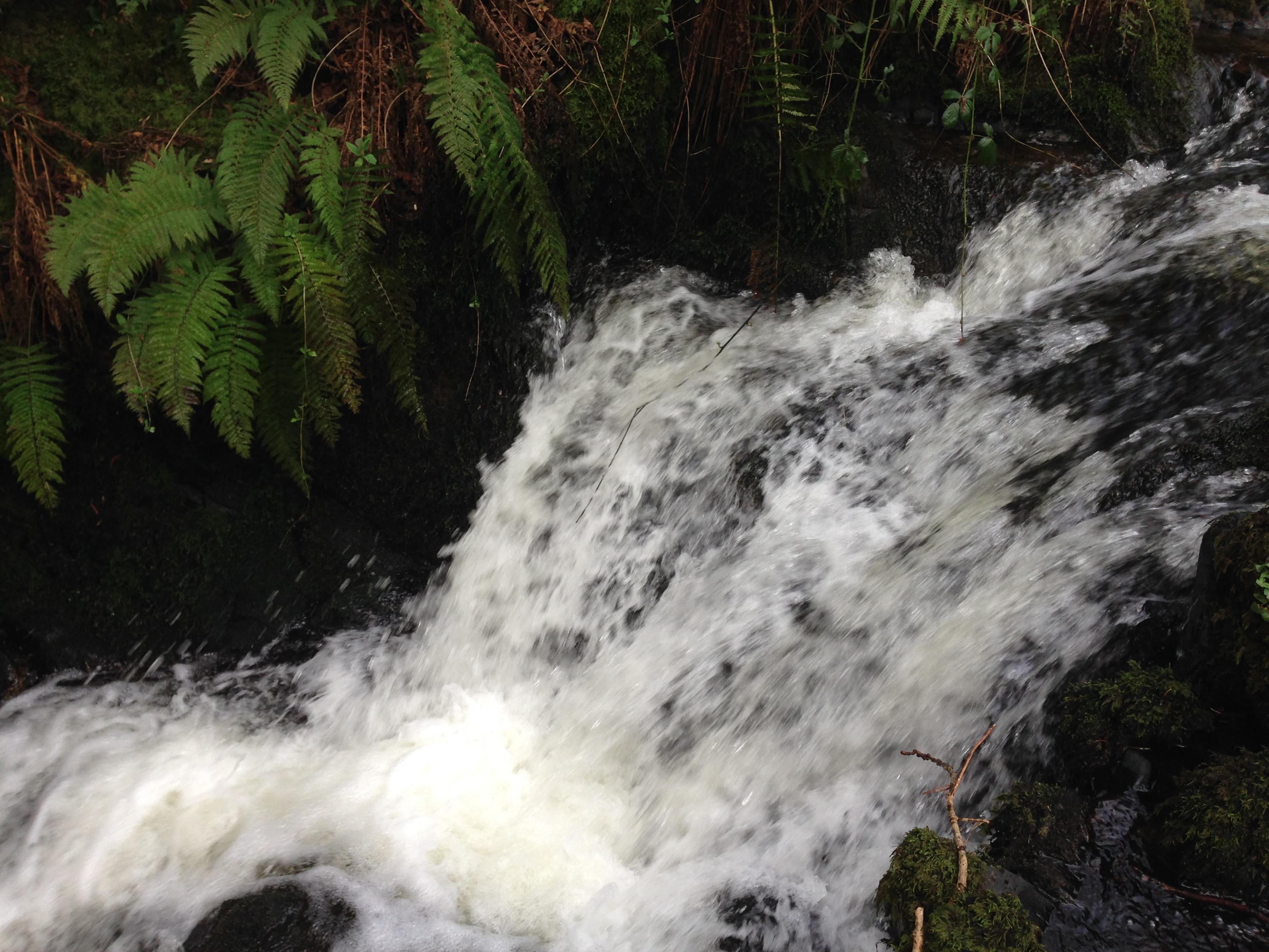 River Glyde, in the town-land of Tonaneave